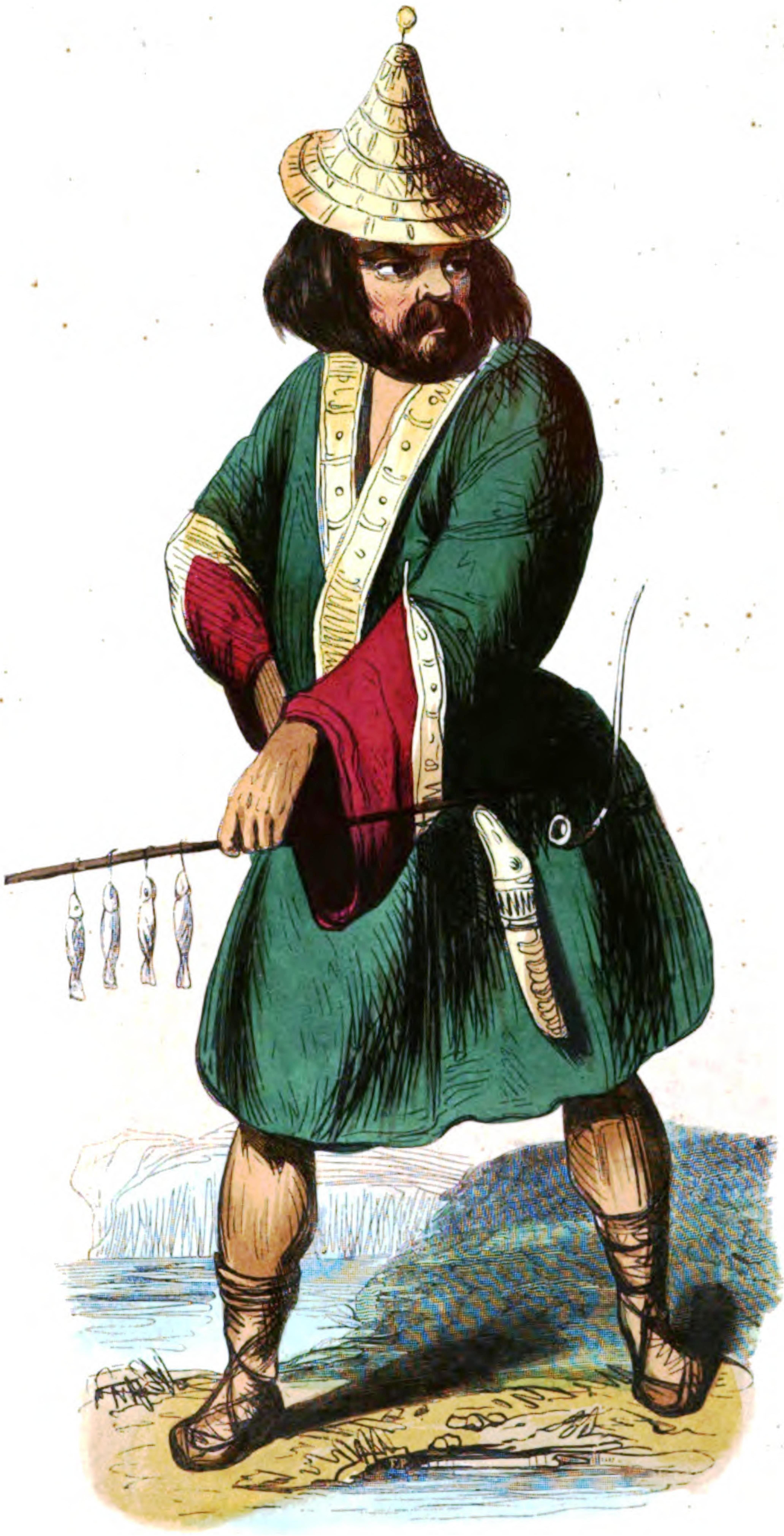 Auguste Wahlen, Moeurs, usages et costumes de tous les peuples du monde, Volume 1. Publisher La Librairie historique-artistique, 1843